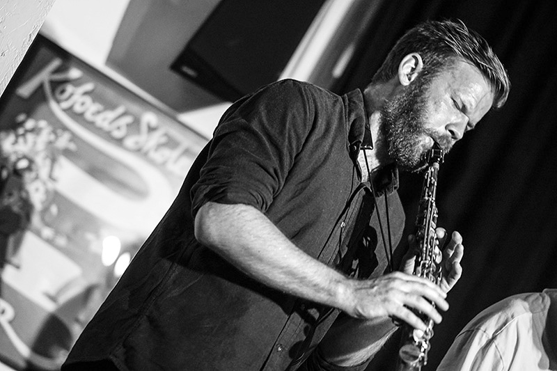 André Roligheten at Copenhagen Jazz Festival performing with Gard Nilssen’s Acoustic Unity (2018)